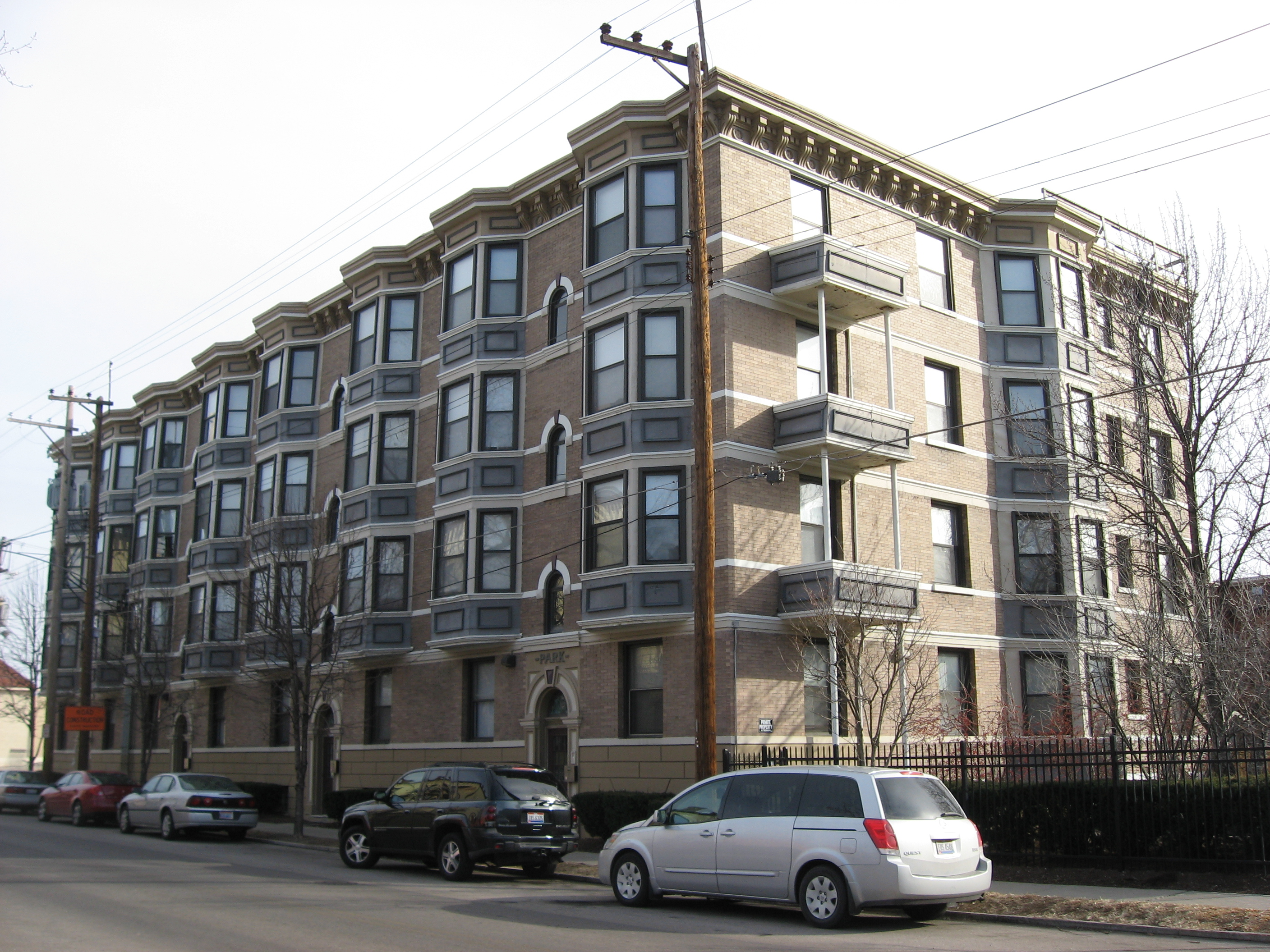 Front and southern side of the Park Flats, located at 2378-2384 Park Avenue in the Walnut Hills neighborhood of Cincinnati, Ohio, United States. Built in 1904, it is listed on the National Register of Historic Places.